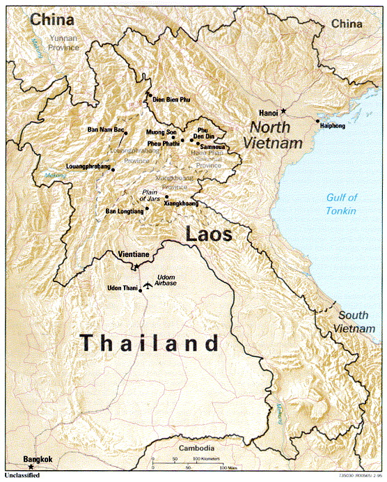 This map shows the location of Phou Pha Thi in Laos.